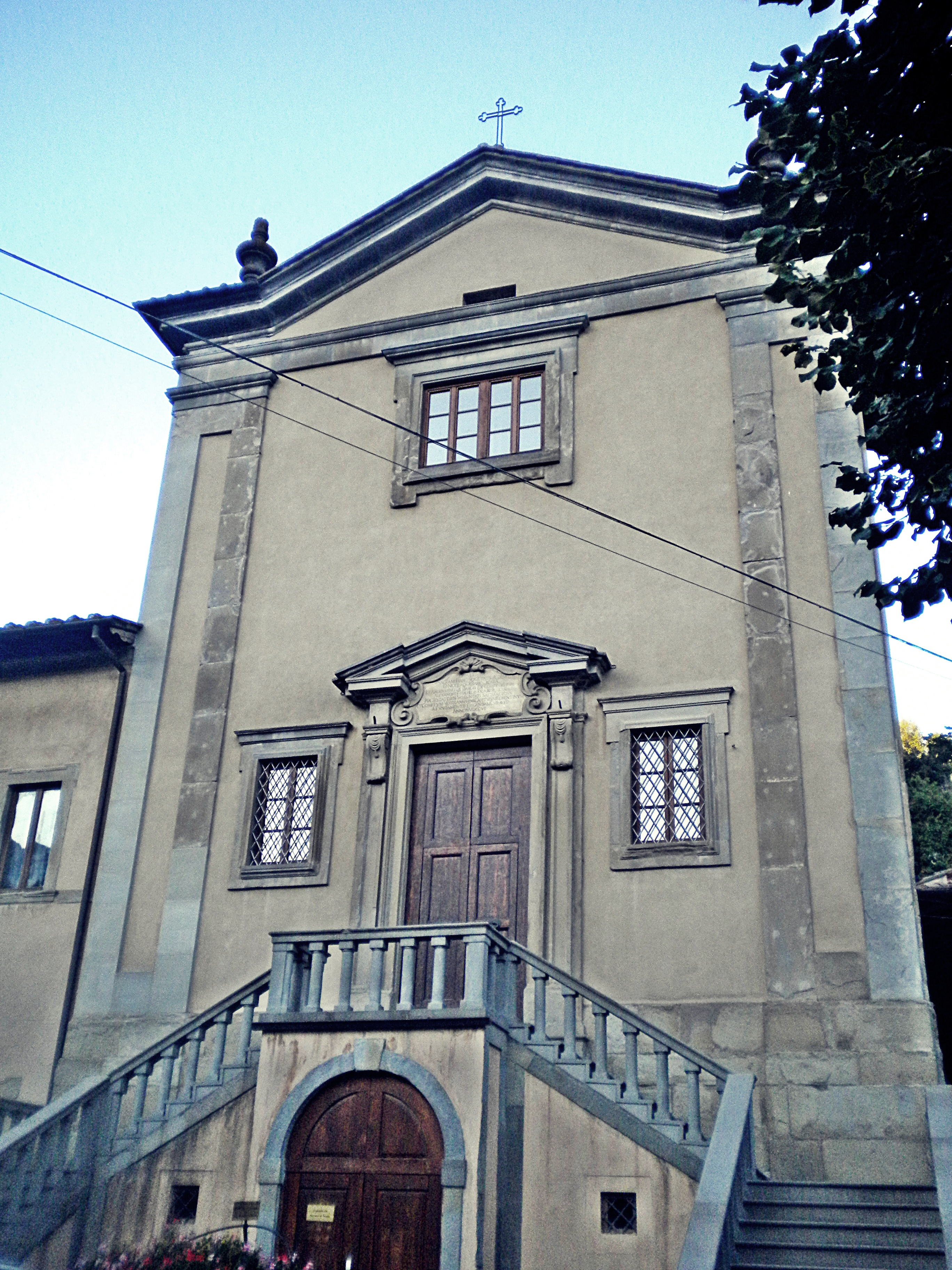 oratory